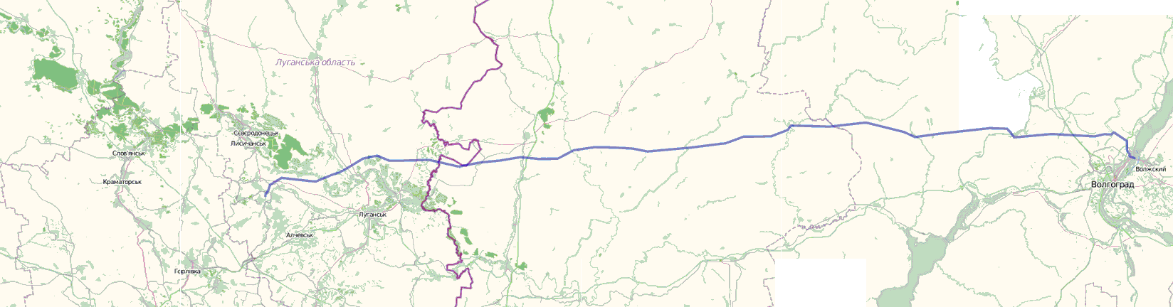 Map of the track of HVDC Volgograd-Donbass made with Openstreetmap data